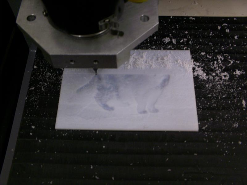 TWEAKIE my CNC machine under construction is at